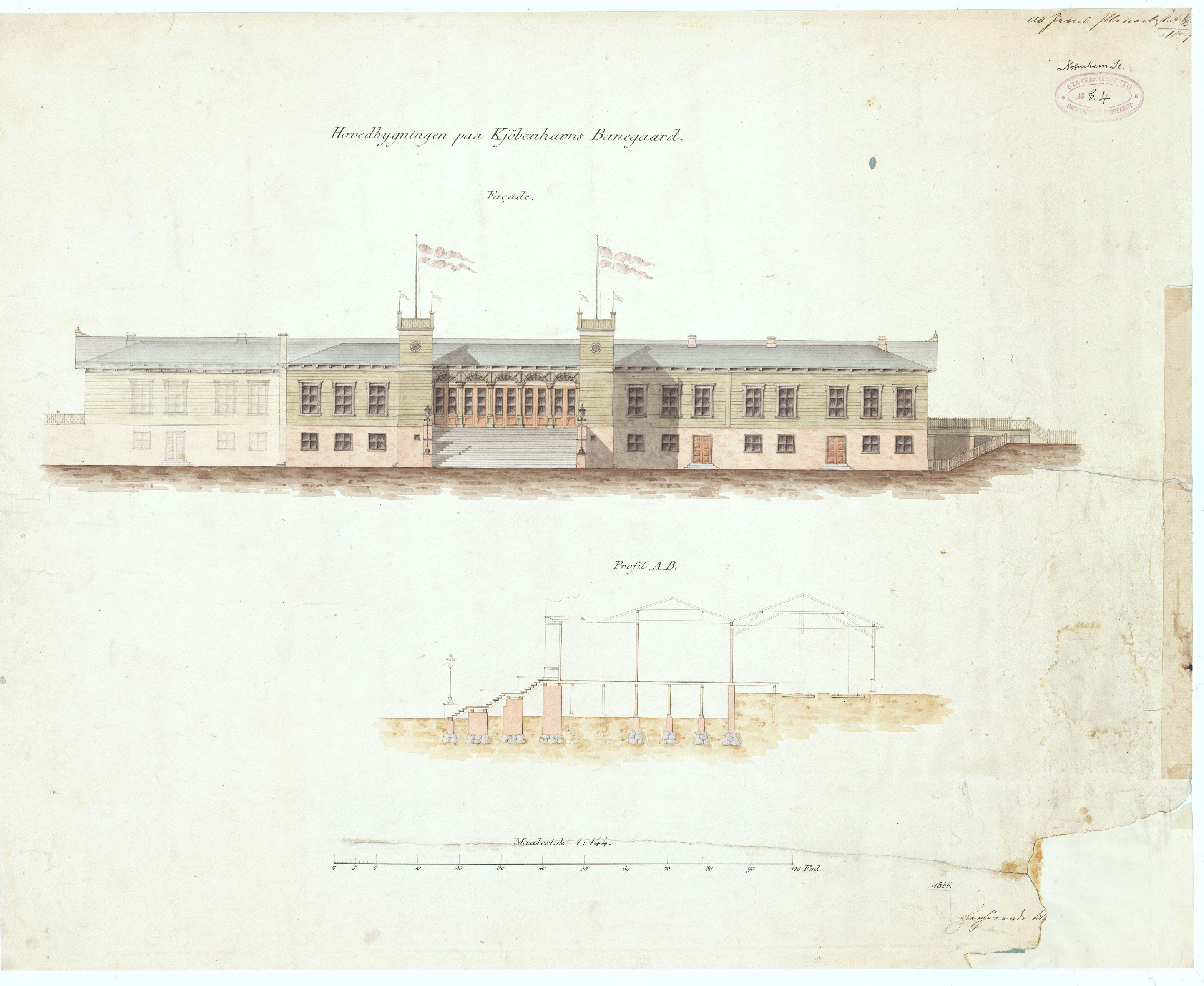 Elevation of the facade of the 1st central station of Copenhagen from 1847. Design attributed to L.F. Meyer (Meier) or H.C. Stilling.